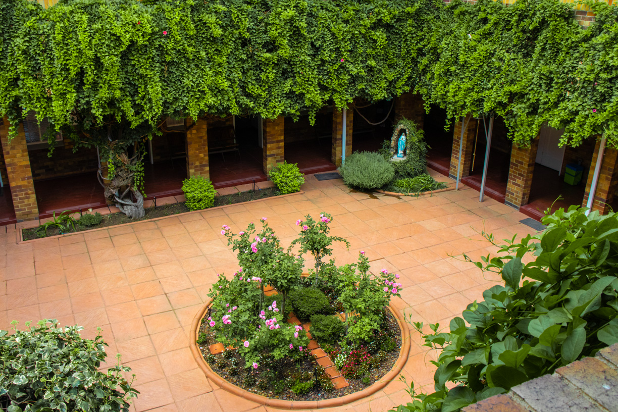 Photo from the second floor of St Catherine's School Quad